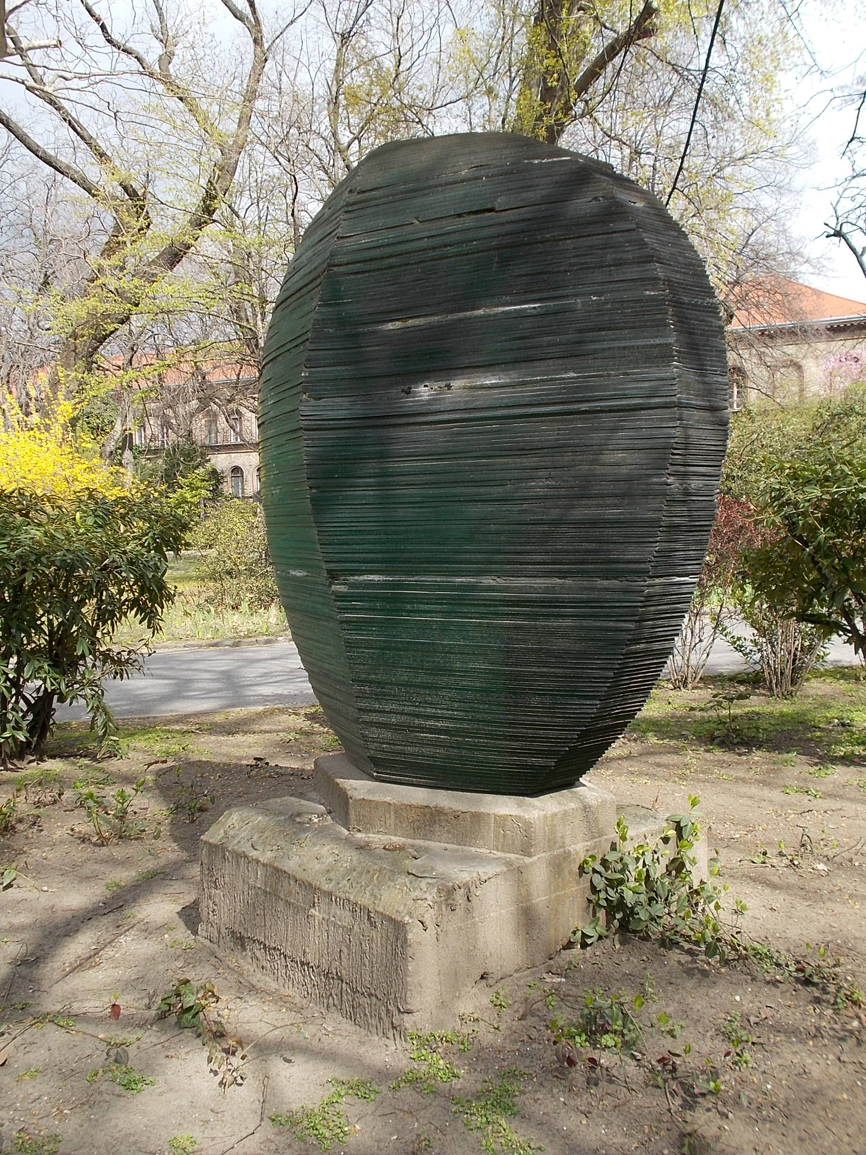 University of Veterinary Science (UVS), green glass Cell sculpture by Zoltán Bohus, (1977) close to A bldg. - 2 István Street, Budapest District VII.